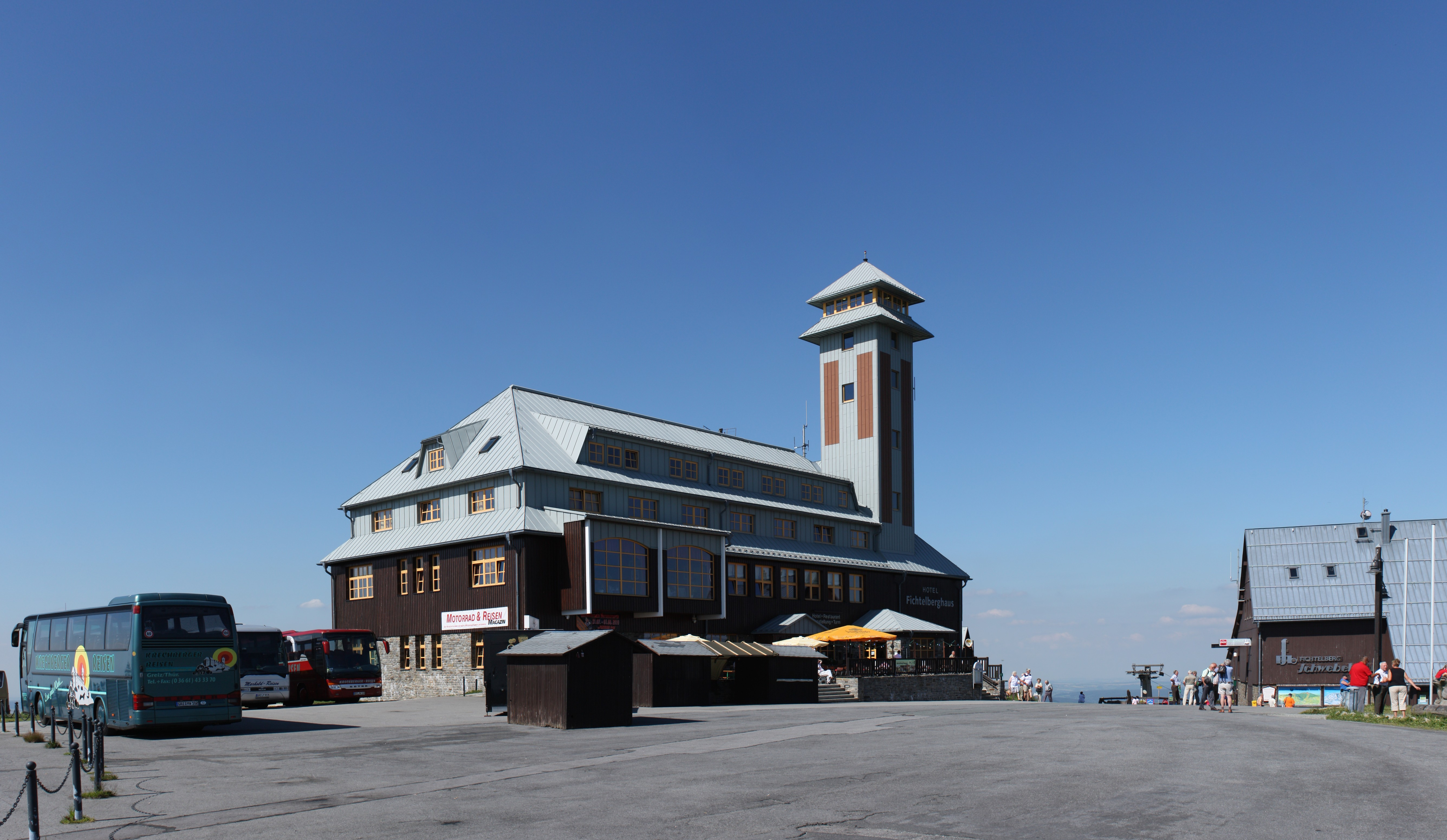 Fichtelberg, July 2010